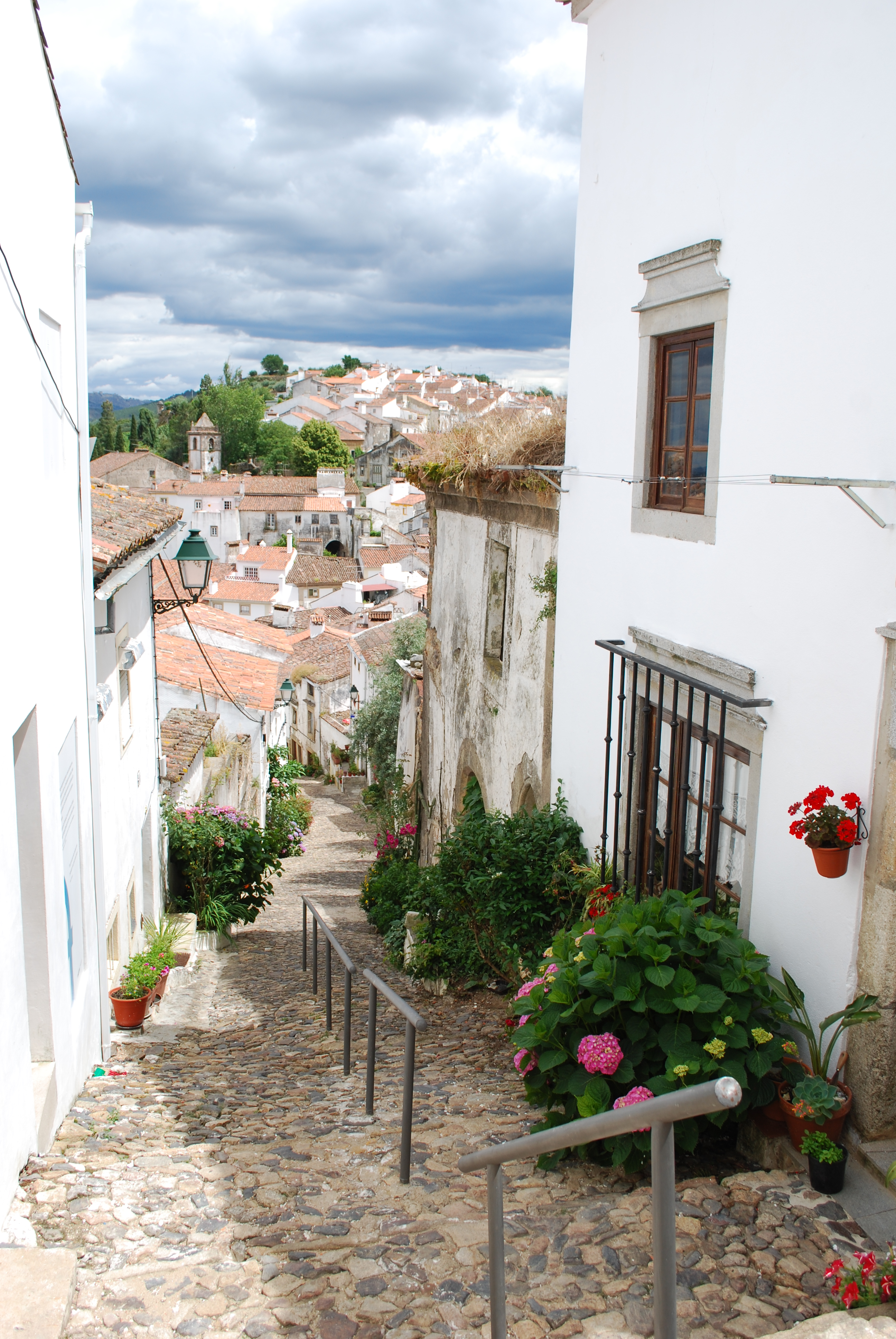 Castelo de Vide's historic Jewish Quarter. This file was uploaded for Wiki Loves Monuments in Portugal with the unique identifier 97007361.